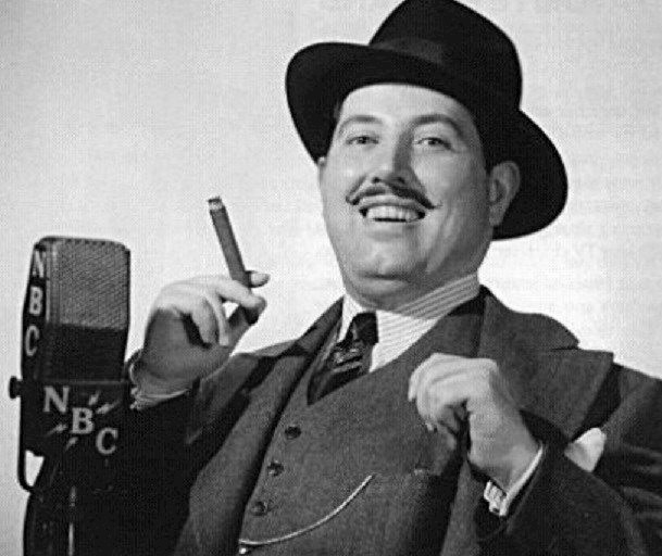 Photo of Harold Peary during his time as star of radio comedy, The Great Gildersleeve.